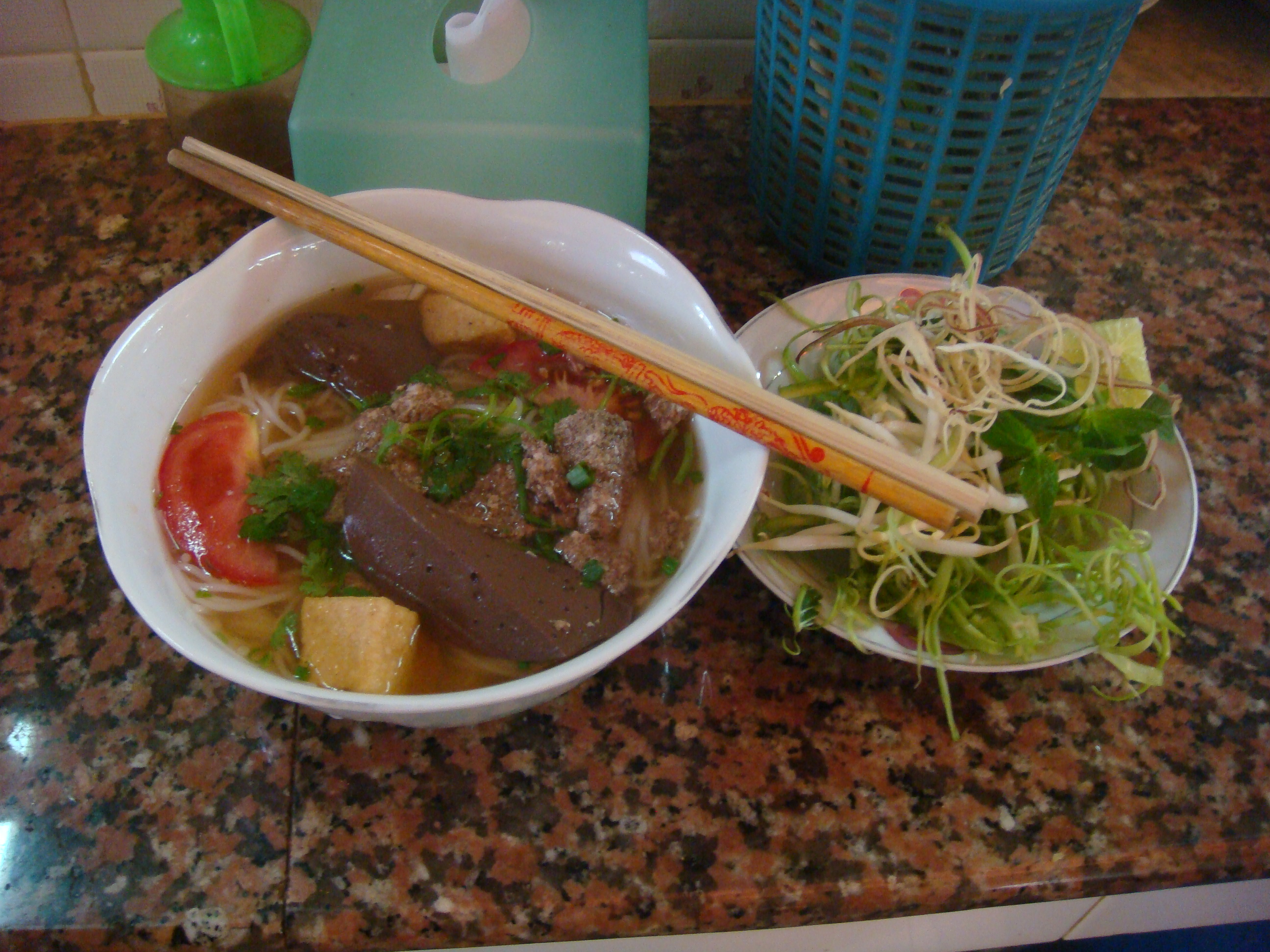 Bún riêu dish at 310, Phan Dinh Phung Street (Phu De), ward 7, Tra Vinh City, Vietnam.